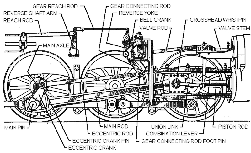 ©modified by Mike Manning